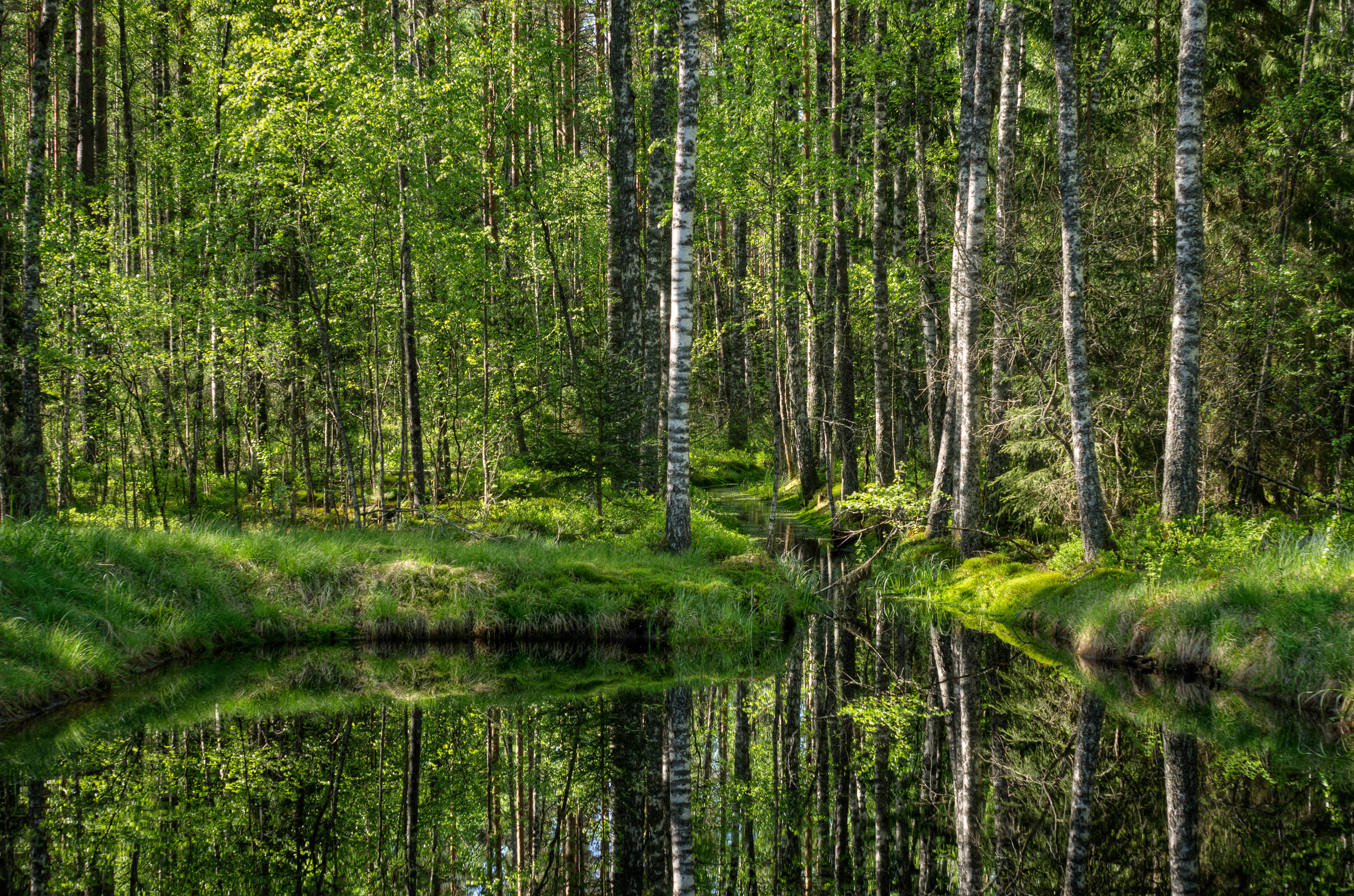 Mustoja Nature Park is the biggest protected area in Põlva County, Estonia.